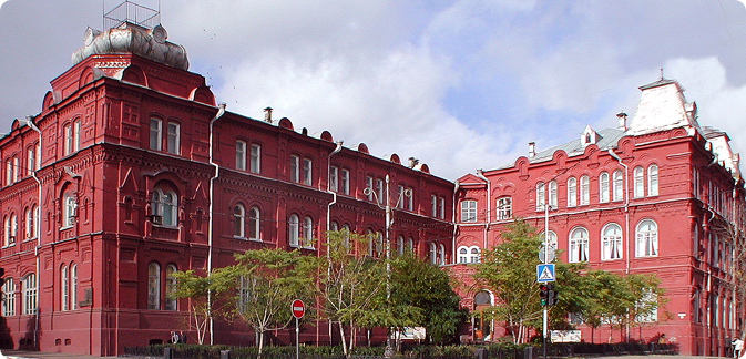 Краеведческий музей